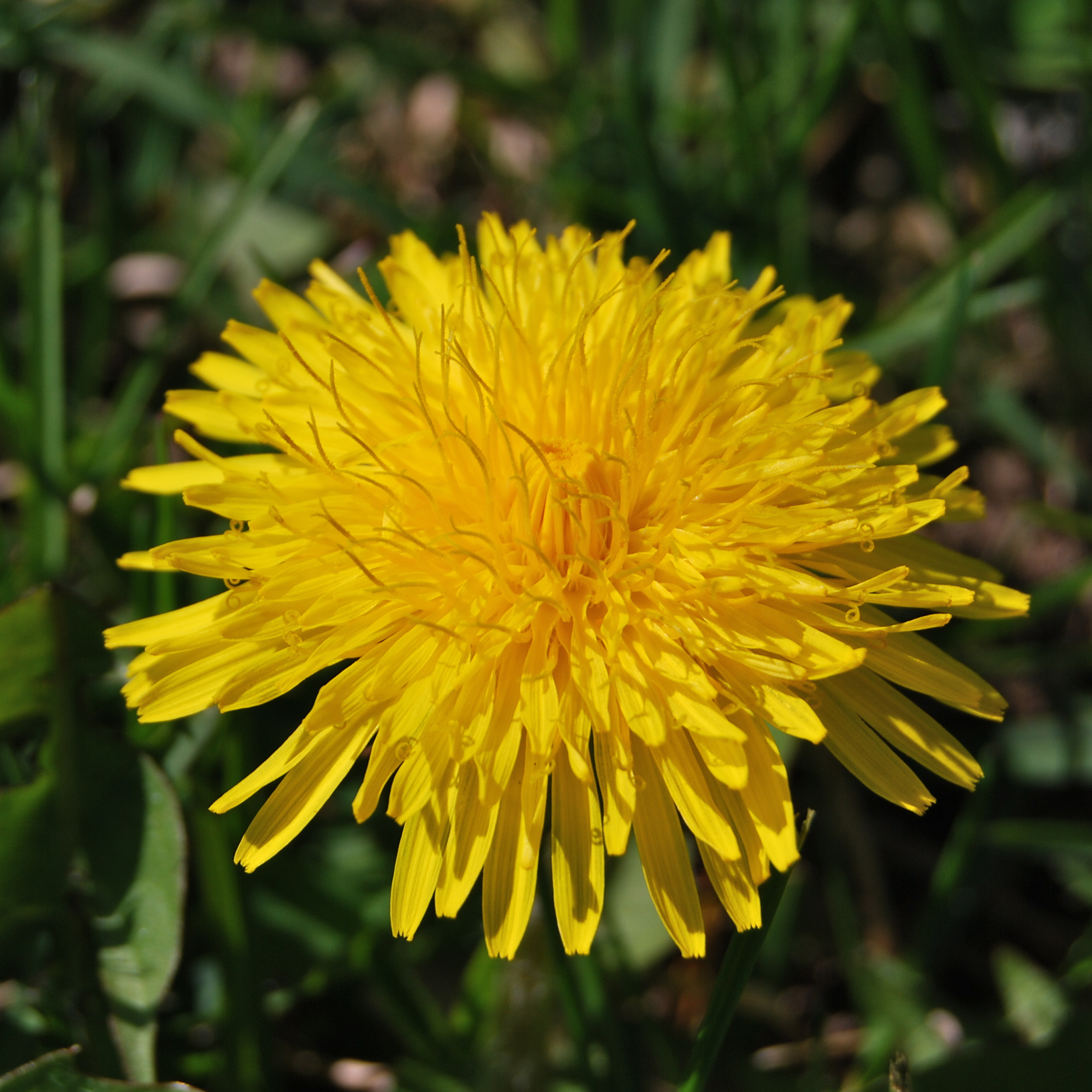 Common dandelion, a weed; this specimen found in upstate New York